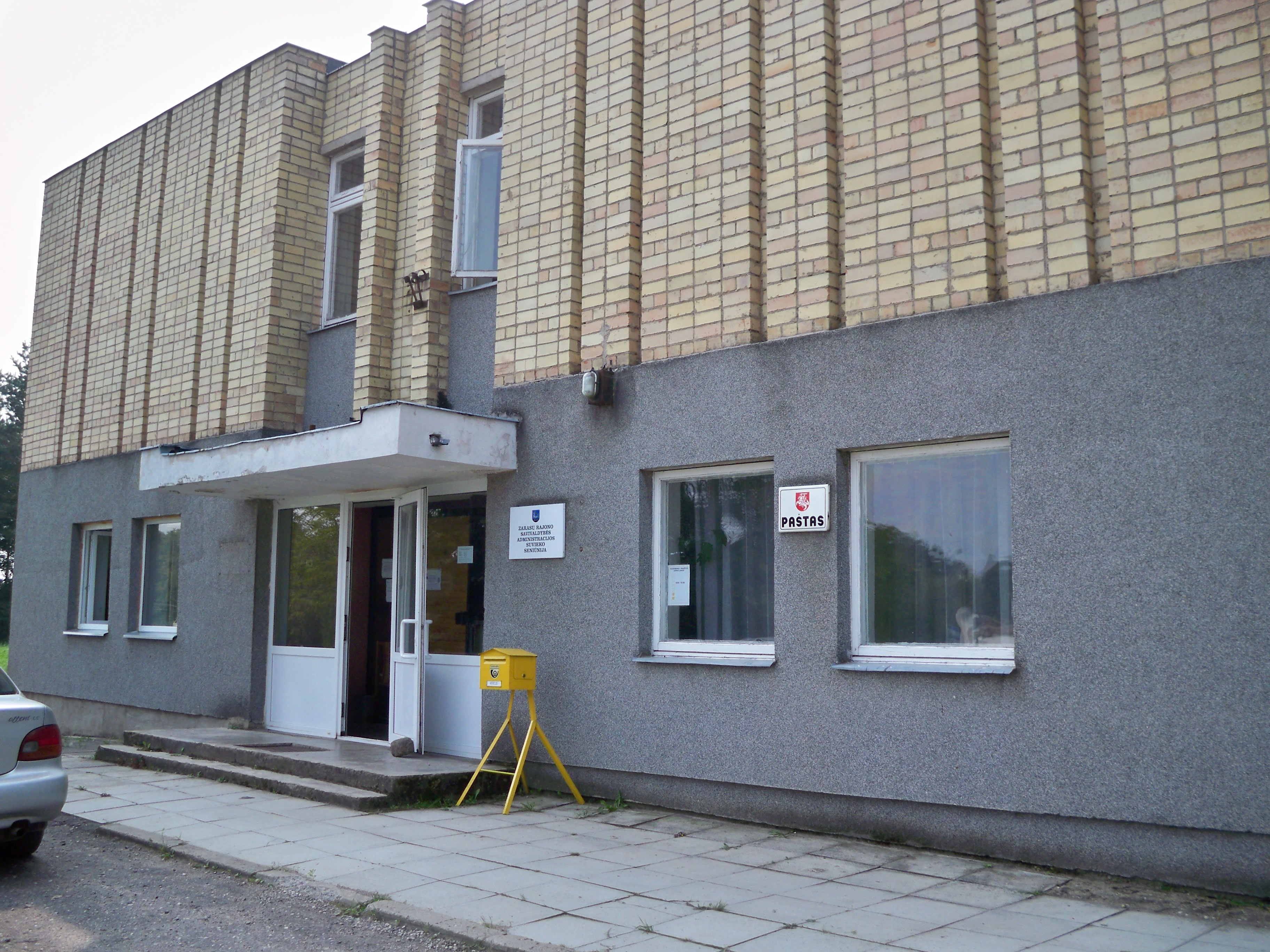 Suviekas eldership.